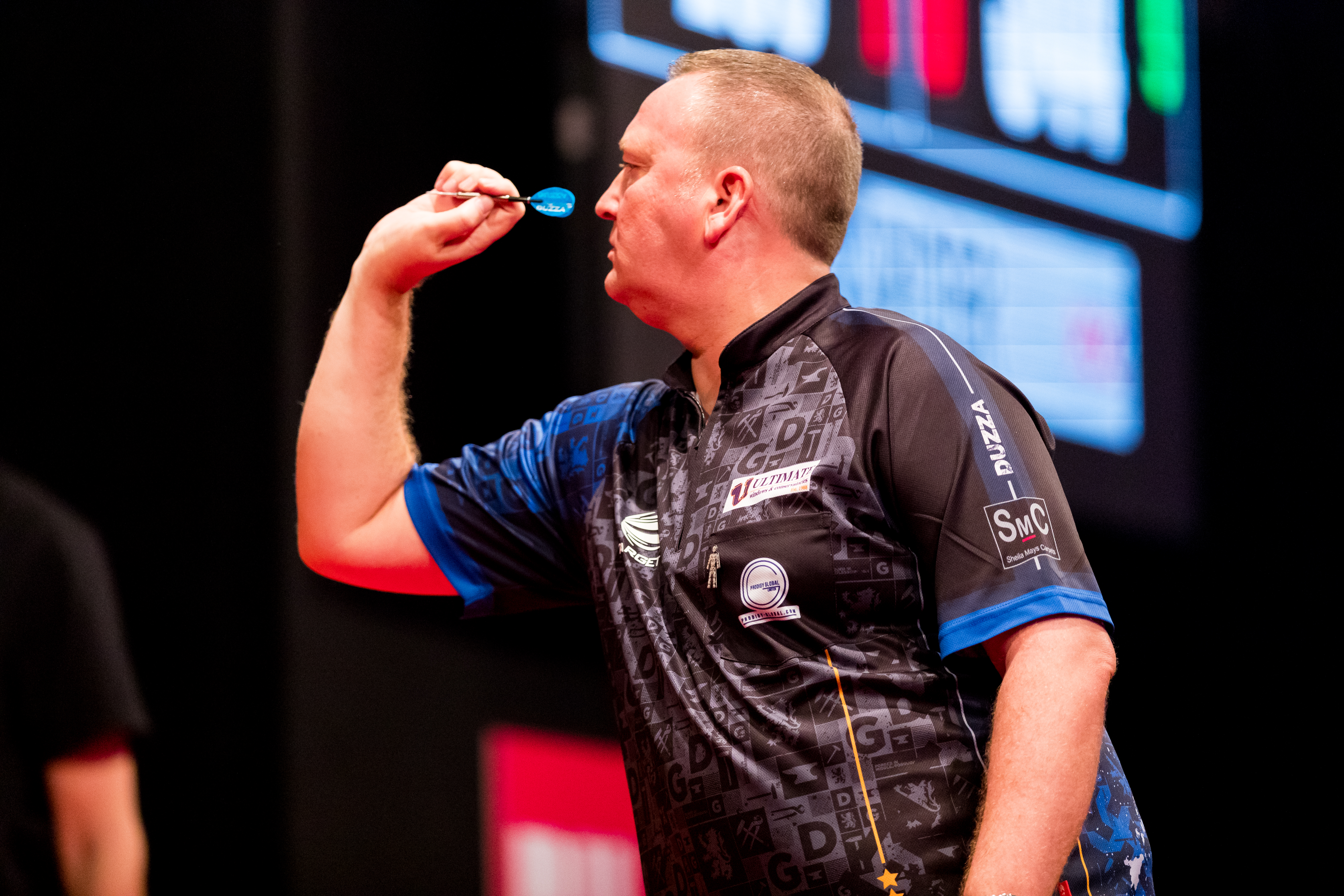 Glen Durrant 6:3 Cody Harris during PDC Europe Darts Matchplay at Maimarkthalle, Mannheim, Baden-Württemberg, Germany on 2019-09-07, Photo: Sven Mandel